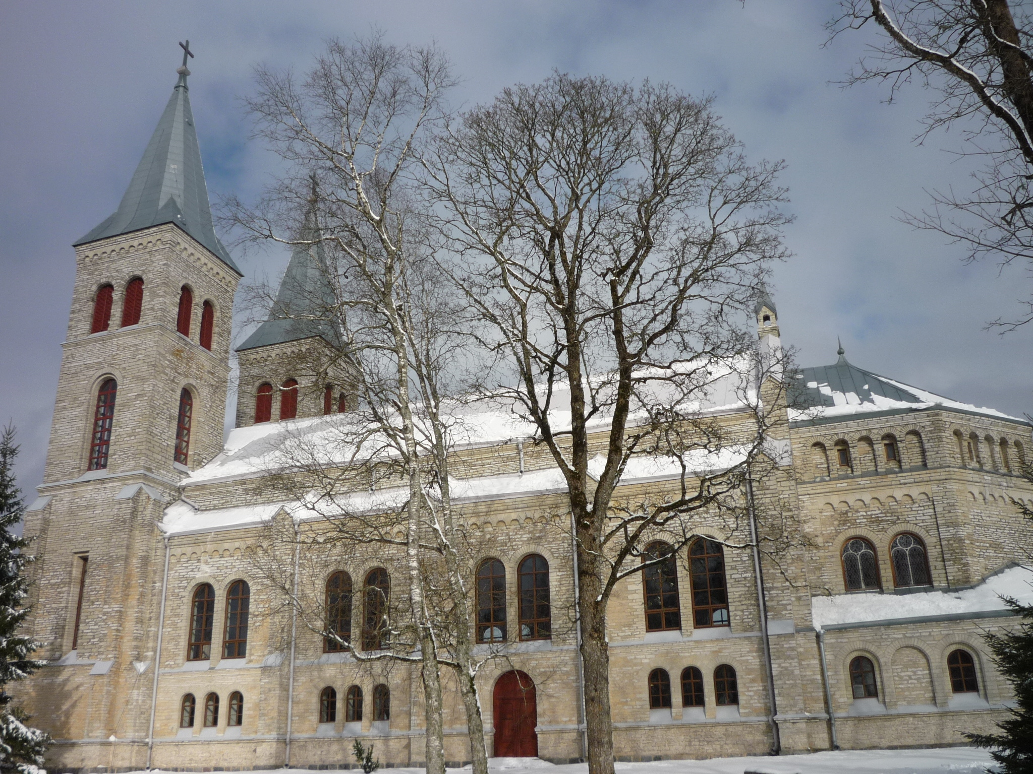 Rapla church. Rapla, Estonia.